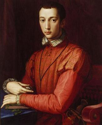 Francesco I de' Medici, Grand Duke of Tuscany